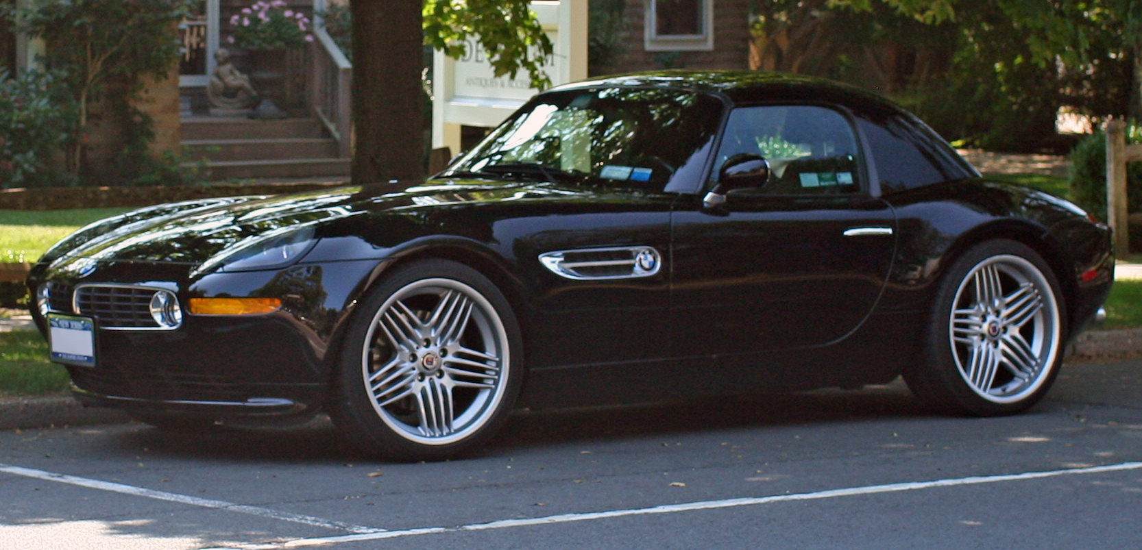 Alpina Z8 with hardtop in place